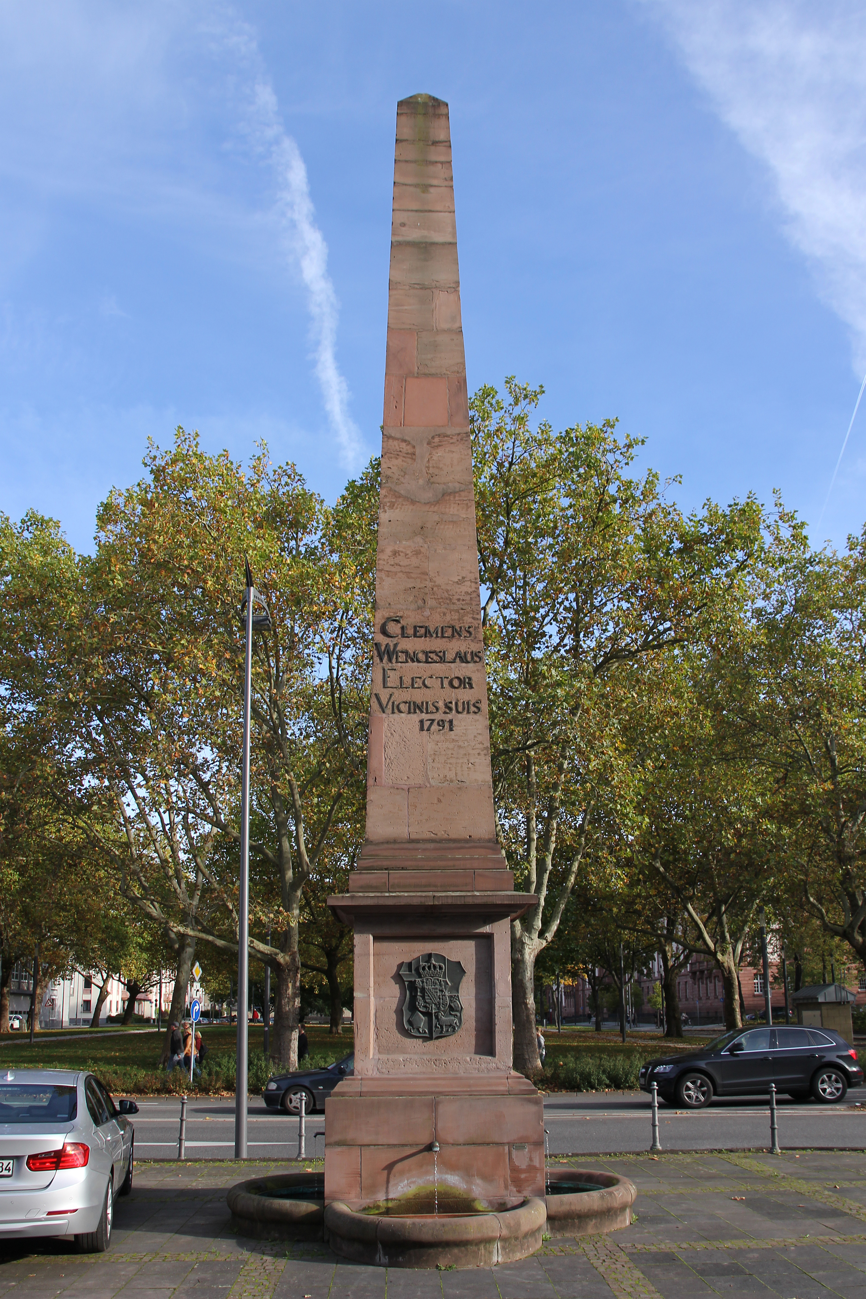 Clemens fountain in Koblenz